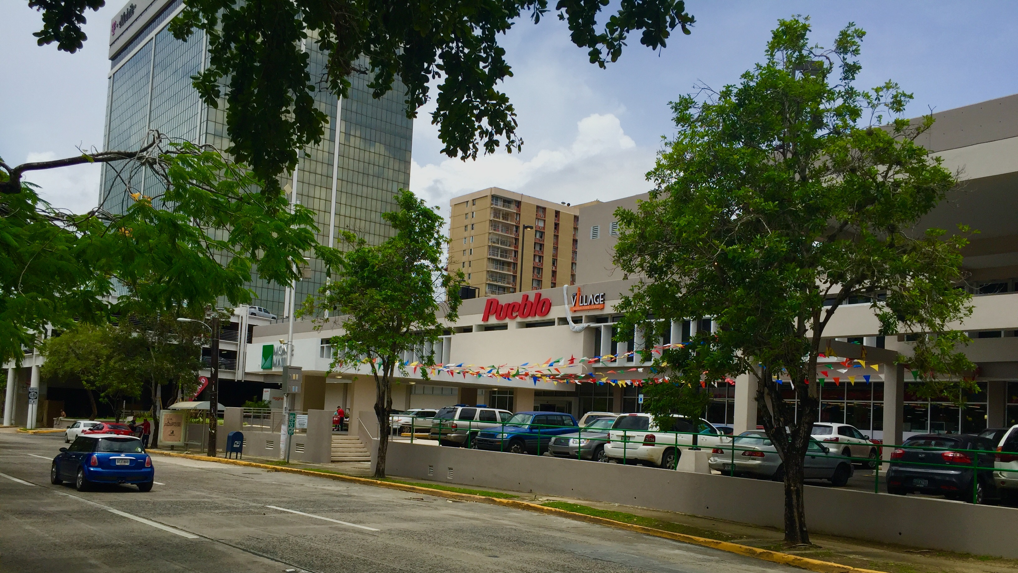 El Monte Mall, Hato Rey, San Juan